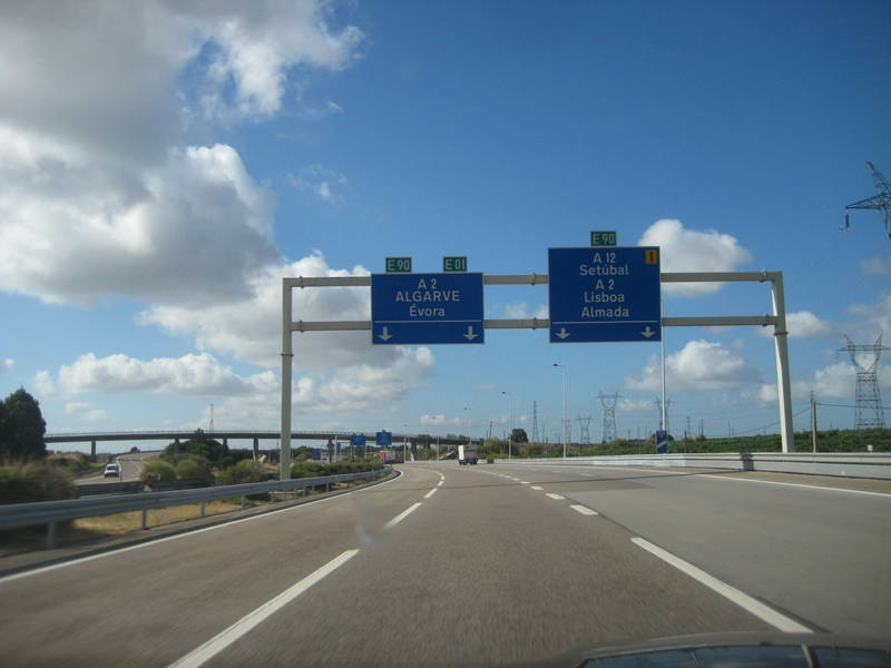 Interchange E 90/E 01 East of Lisbon